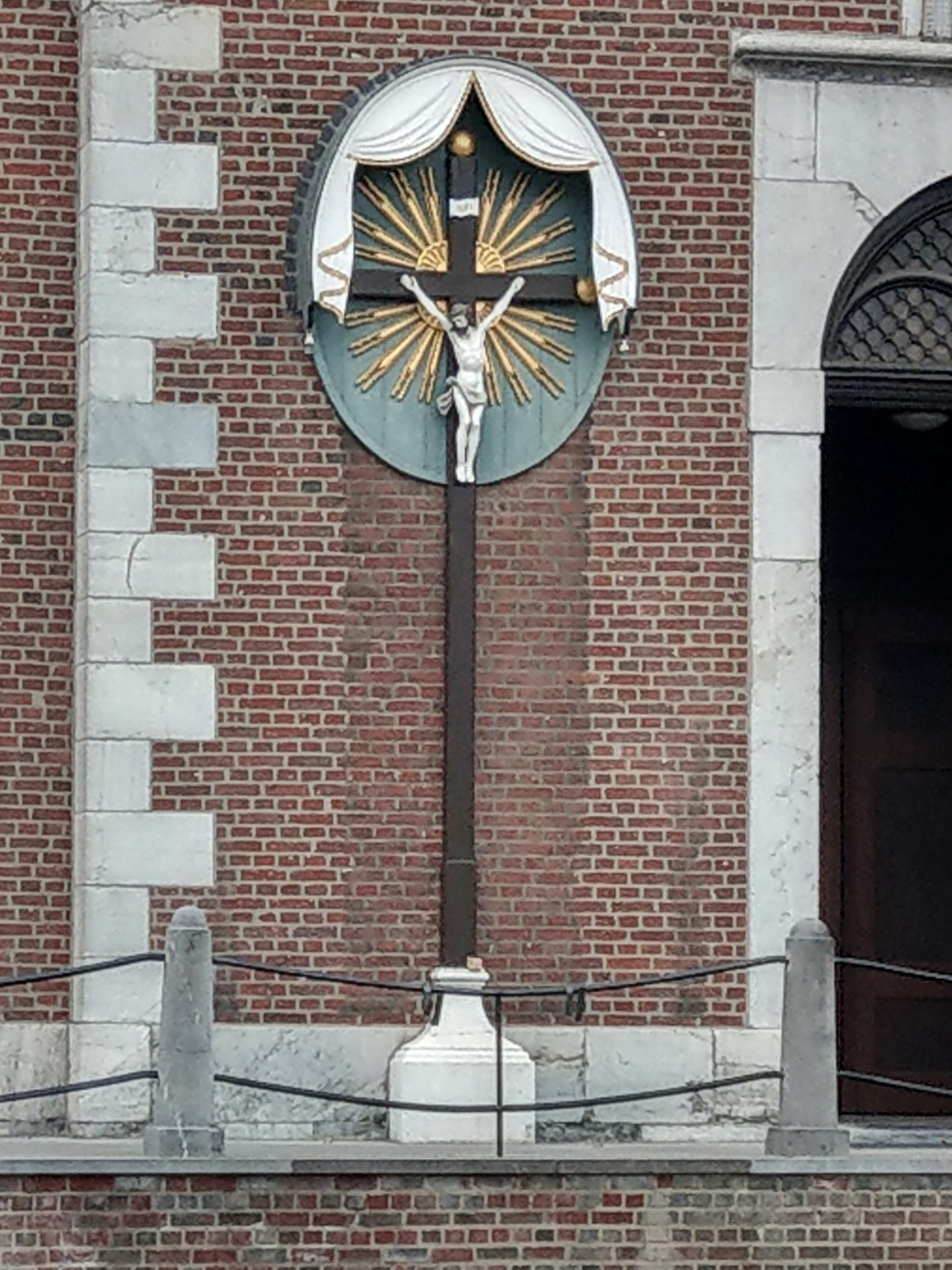 The cross probably stood before in the garden of the Capuchin monastery